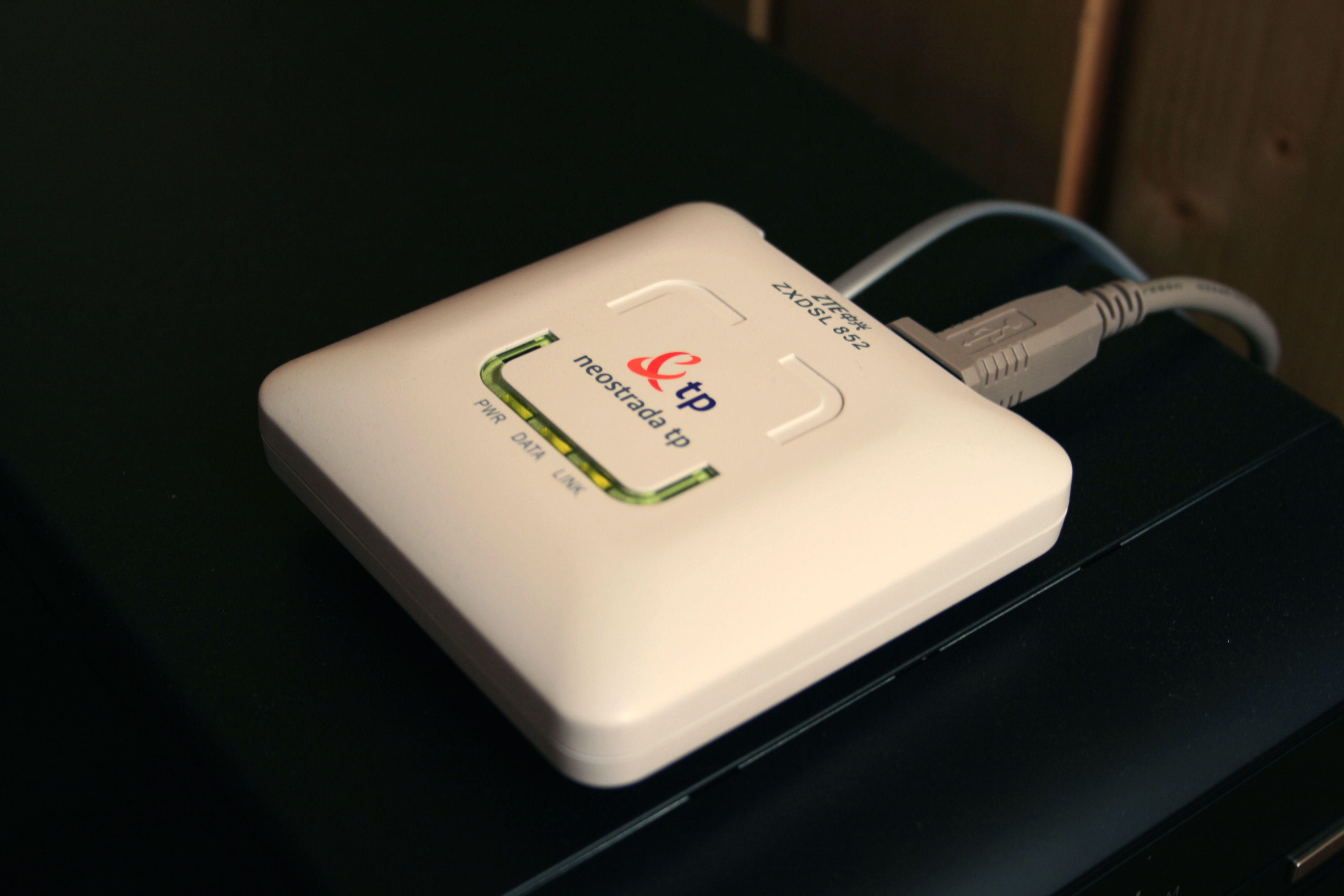 ZTE ZXDSL 852 Modem